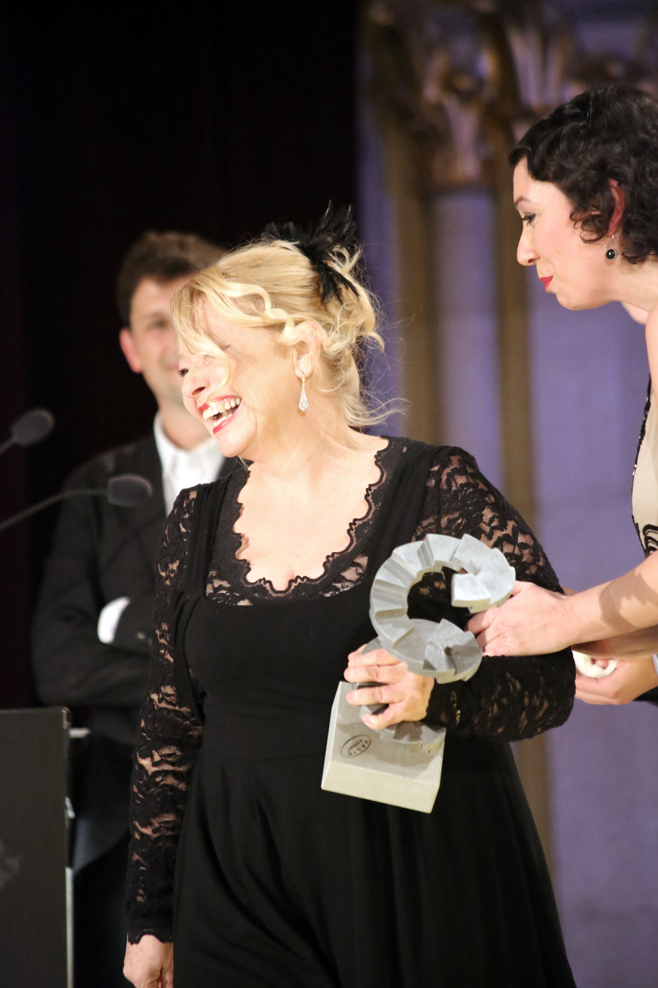 Margarethe Tiesel with presenters Ursula Strauss and Rupert Henning at the Austrian Film Awards 2013 (Vienna).